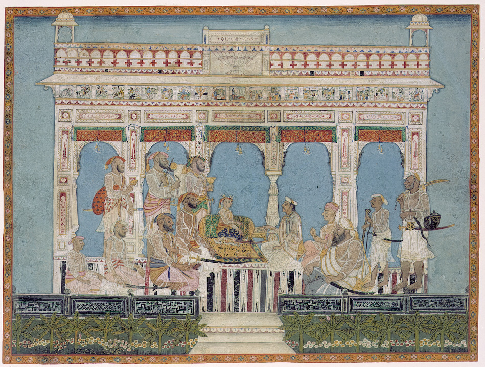 Display Artist: Ram Singh Creation Date: 1846 Display Dimensions: 12 7/8 in. x 16 7/8 in. (32.7 cm x 42.9 cm) Credit Line: Edwin Binney 3rd Collection Accession Number: 1990.1021 Collection: The San Diego Museum of Art